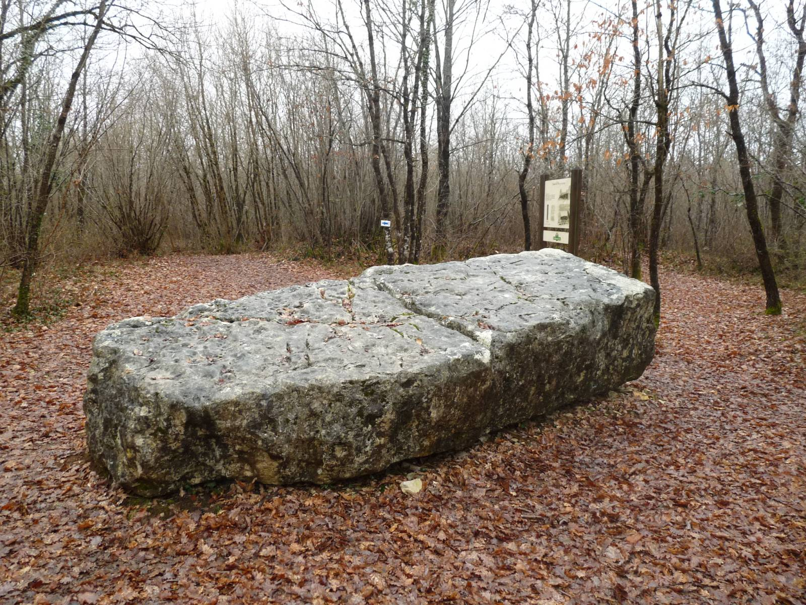 Stone of the sacrifice, Boixe forest, Cellettes, Charente, SW France